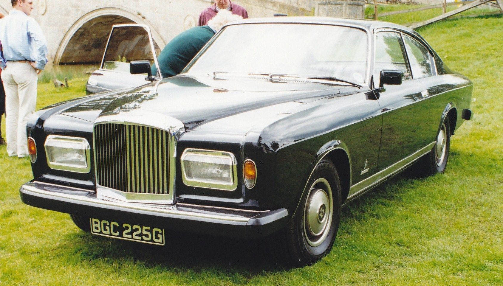 Bentley T Pininfarina 1969 Seen at RREC Annual Rally at Althorp 1997 (DVLA) First registered 1 May 1969, 6230cc